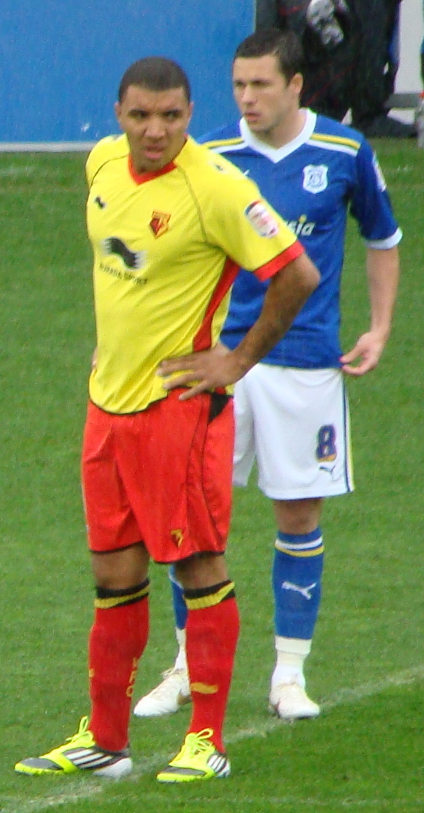 Watford player Troy Deeney, standing in front of Cardiff (and ex-Watford) player Don Cowie, during a Football League Championship match on 9 April 2012.